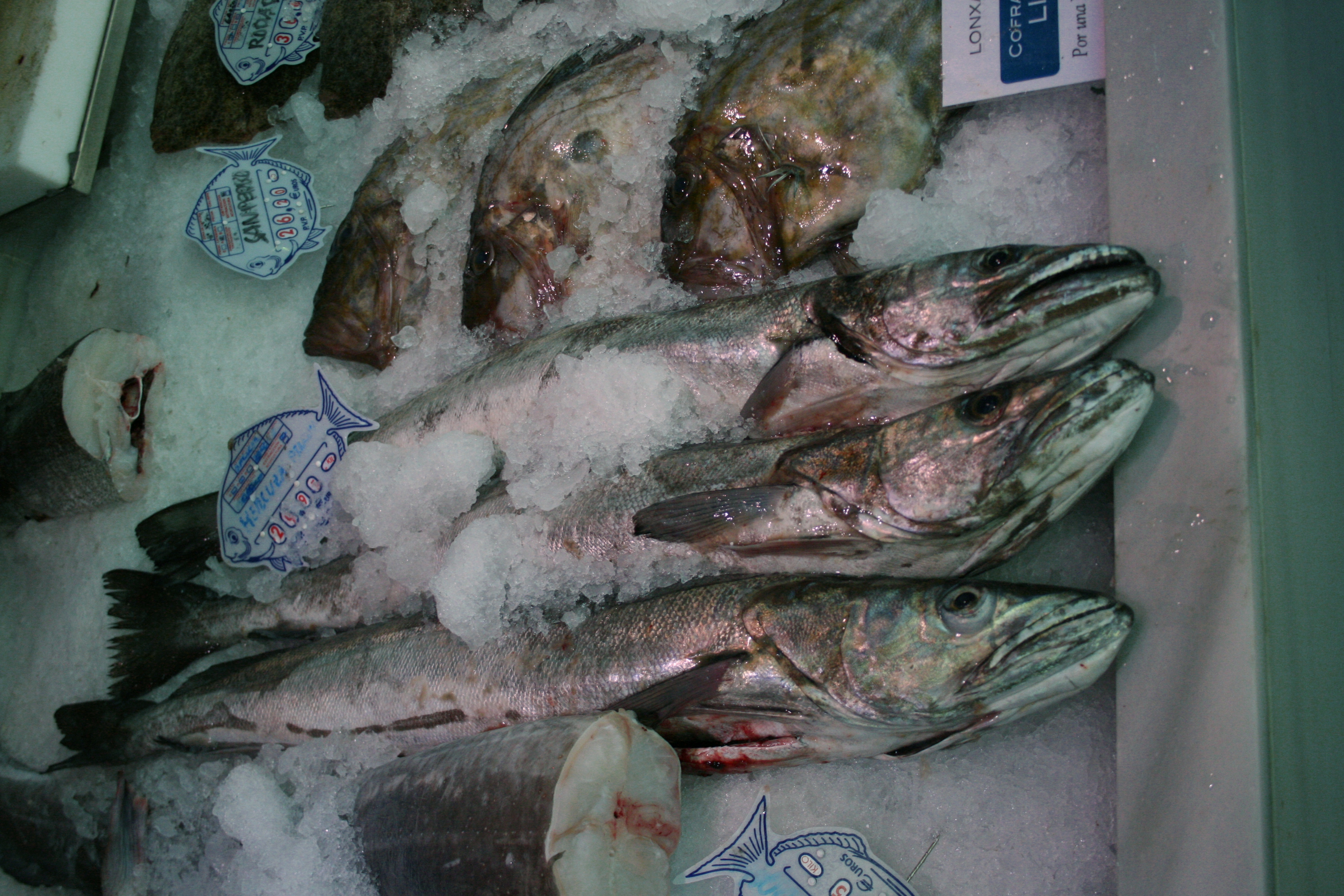 Fish market in Spain